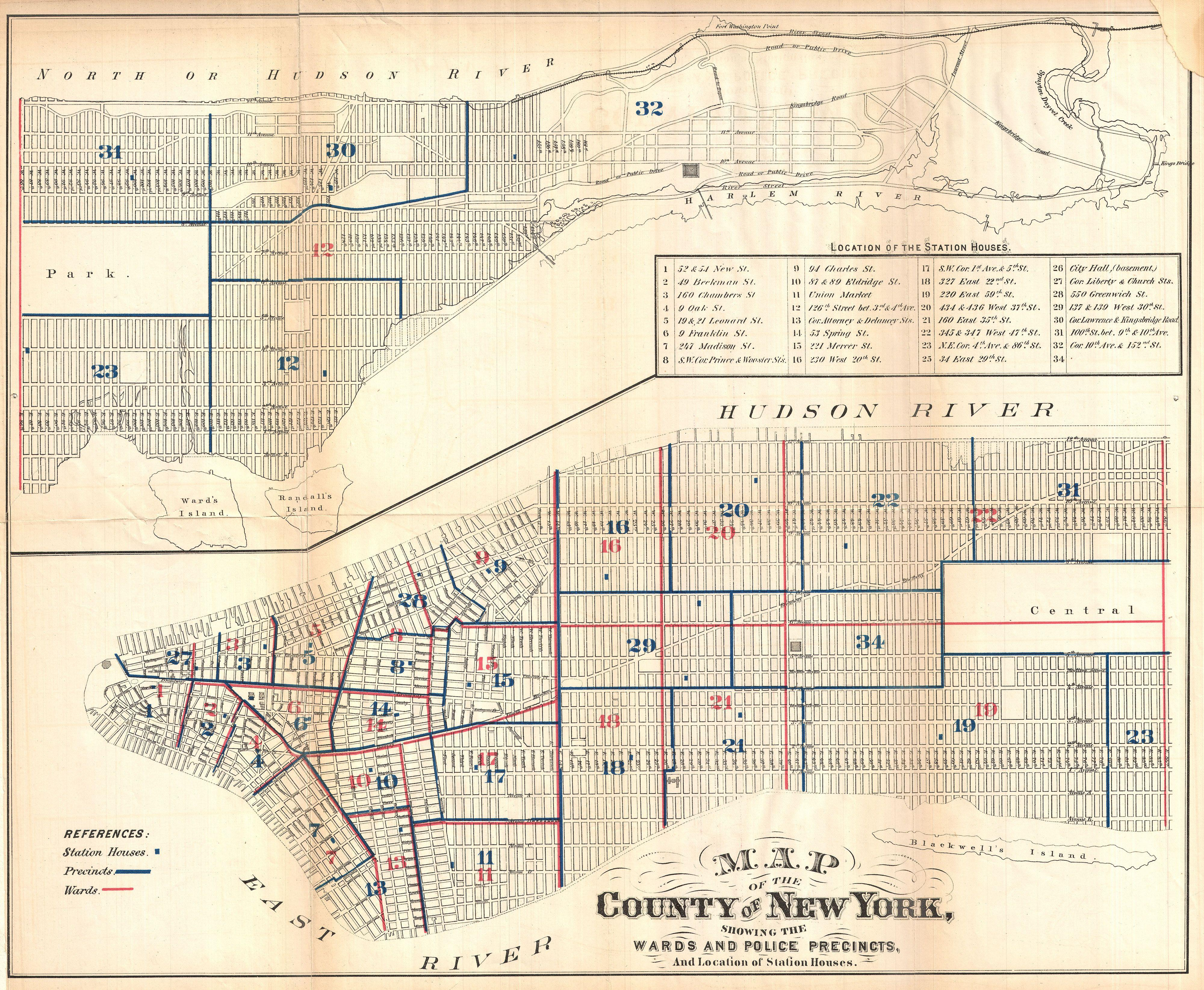 This is large map 1871 map of New York City’s Wards and Police Precincts. Covering all of Manhattan in two sections, this map details the locations of Police Departments, Station Houses, Wards, and Precincts – many of these Police Departments maintain the same locations today. When Hardy issued this map there were 32 Police Precincts in Manhattan. All streets are labeled. Published by John Hardy, Clerk of the Common Council, for the 1871 edition of the Manual of the Corporation of New York .